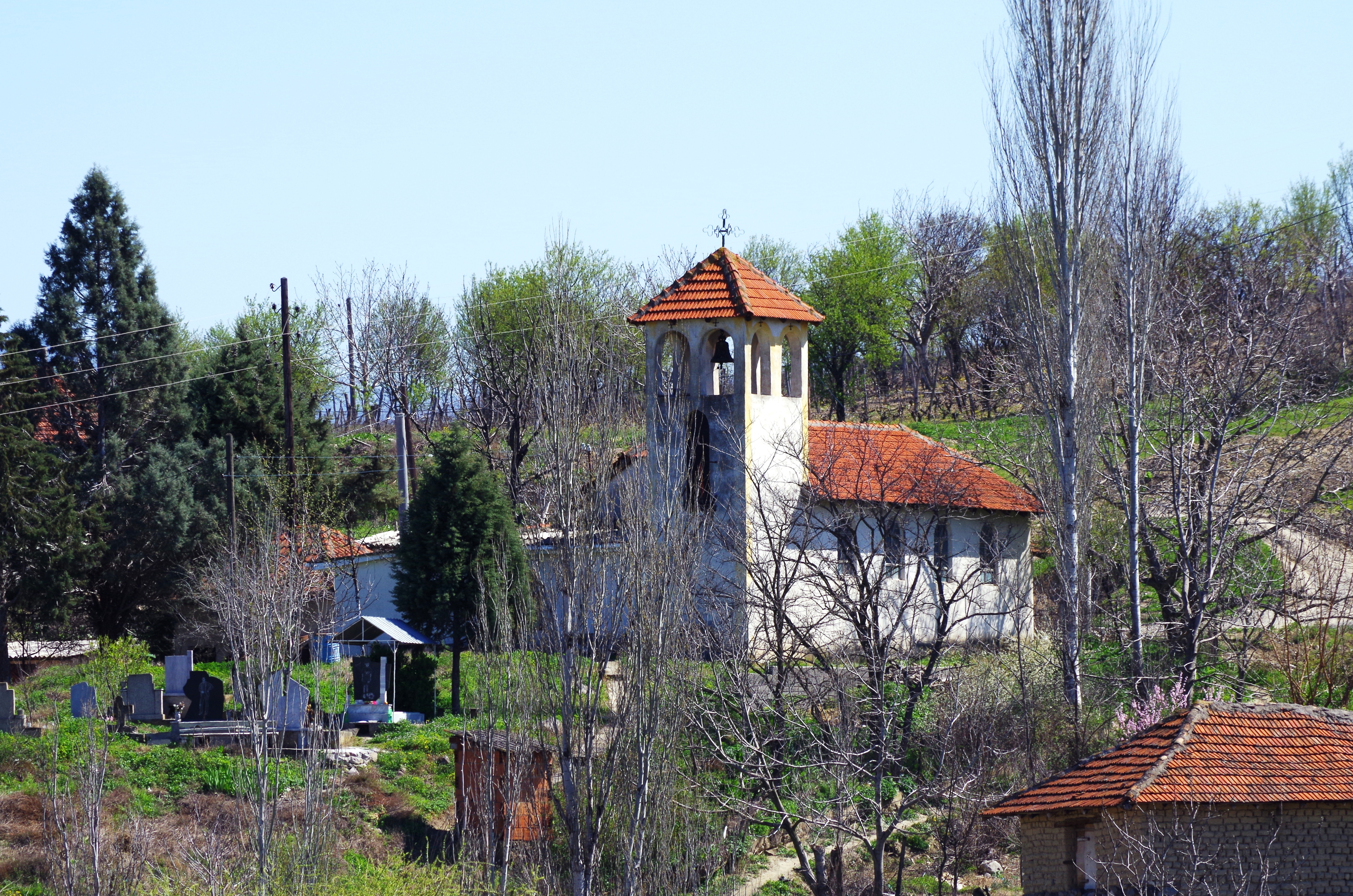 Church in the village Tremnik